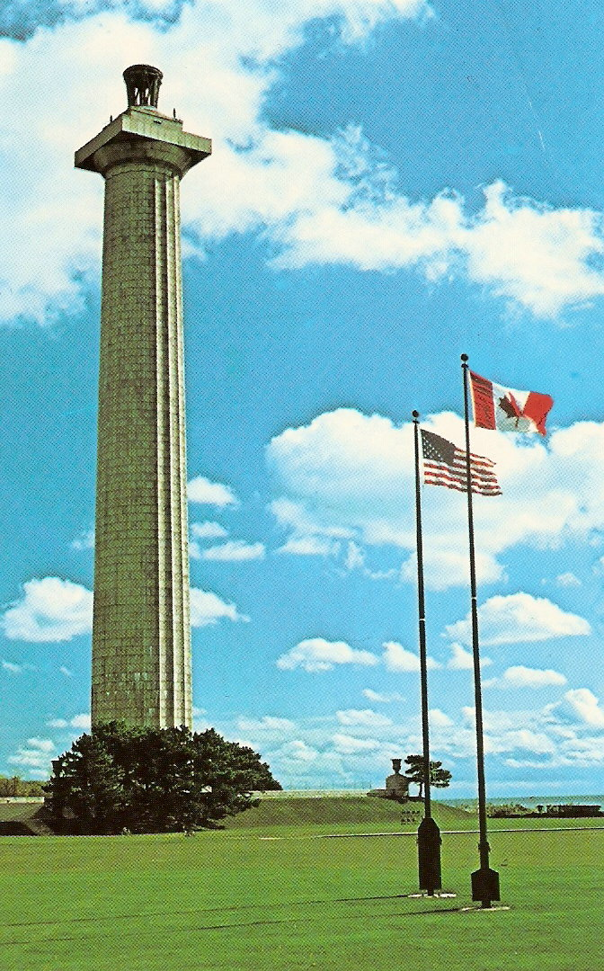 A photo of Perry's Victory and International Peace Memorial